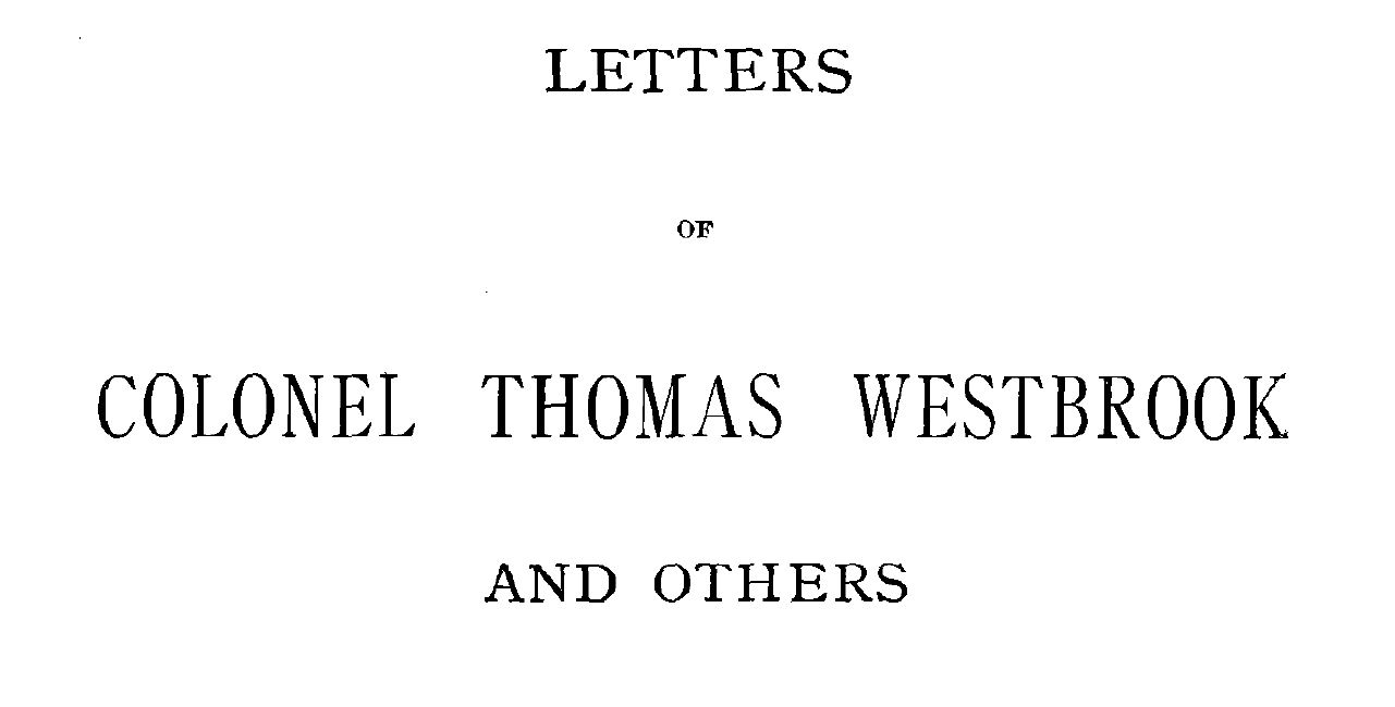 Portion of title page